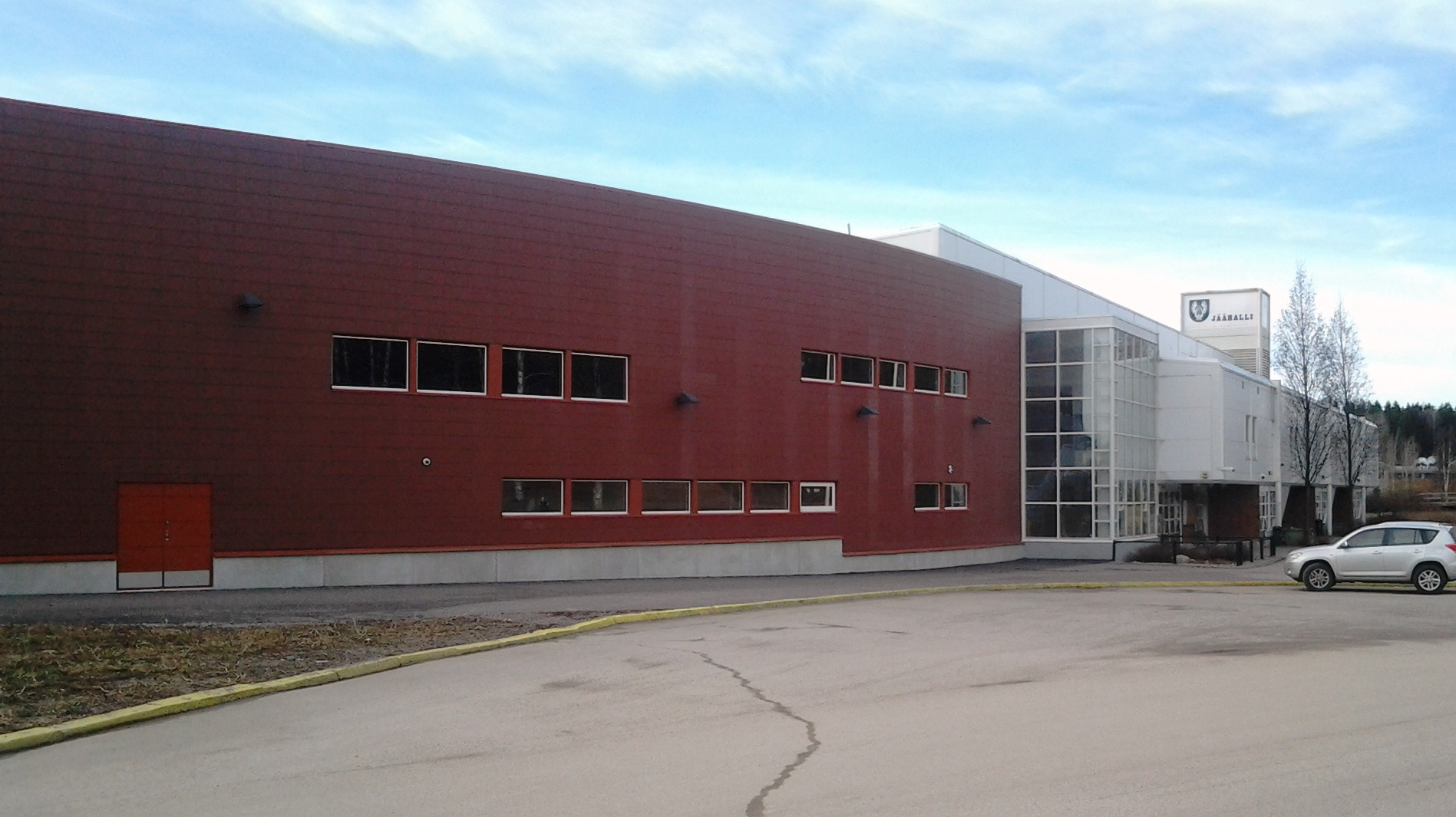 Järvenpää ice hall.